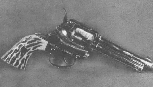 Two young boys, 14 and 15 years of age, were arrested while shooting a zip gun in the vicinity of police target ranges in a eastern U.S. city. A third boy, aged 15, was also arrested when it was learned that the other two had obtained the homemade weapon from him. The zip gun was constructed from a cap pistol of the usual type. A steel barrel had been inserted inside the soft metal barrel and bound with friction tape. The hammer had been filed down and given additional force by a wire spring wound under the firing chamber. The gun is capable of shooting a .22 caliber shell. The three boys were turned over to juvenile court.